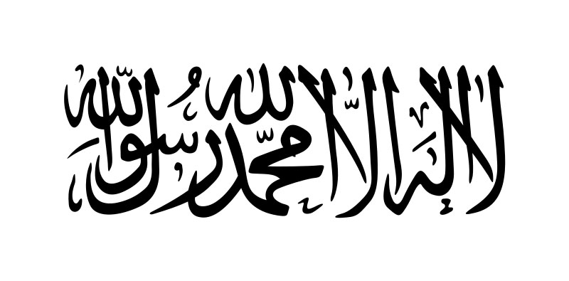 Pronounce : "La ilaha illellahu muhammadur rasulullah" Means : "There is no God but Allah and Muhammad is messenger of Allah."